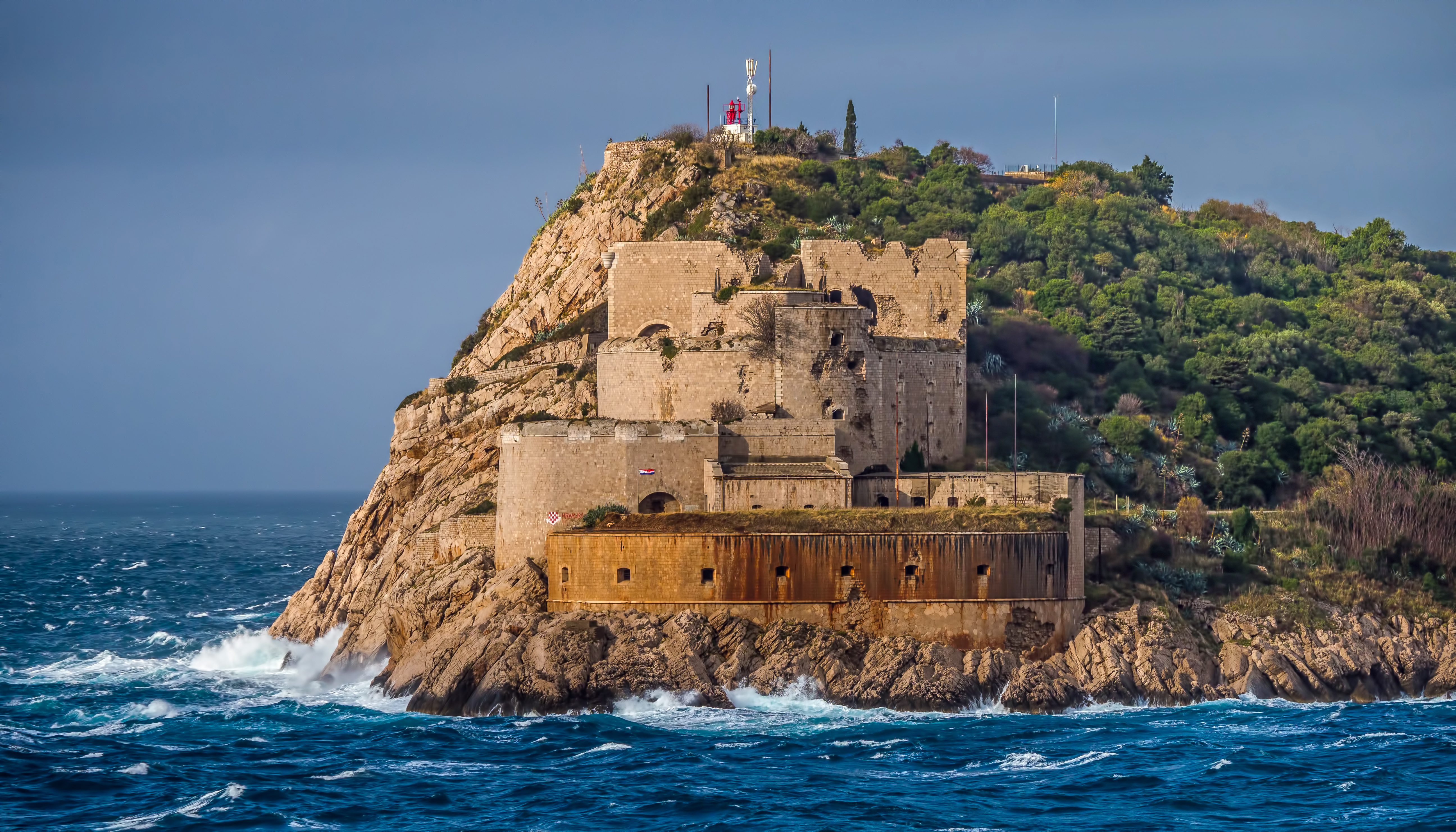 Prevlaka Fortress at the entrance to the Bay of Kotor. Prevlaka lies on Croatian territory. November 2017